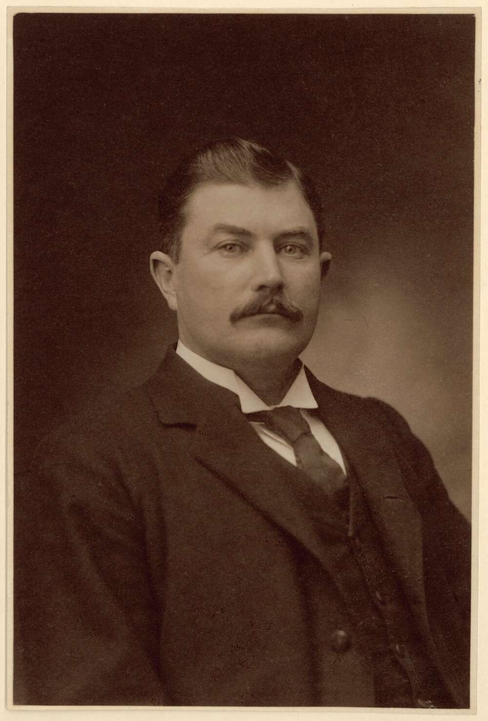 A black and white portrait of George Fuller during the 1900s